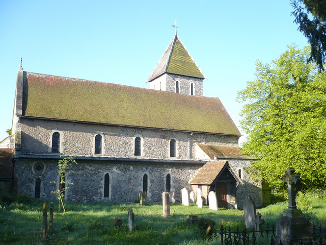 The church of St.Mary Magdalen, Davington Taken in the early morning sunshine. It was originally part of Davington Priory, a medieval nunnery founded over 855 years ago. There is another part of the priory still standing, attached to the south of the church. It is now a private residence.